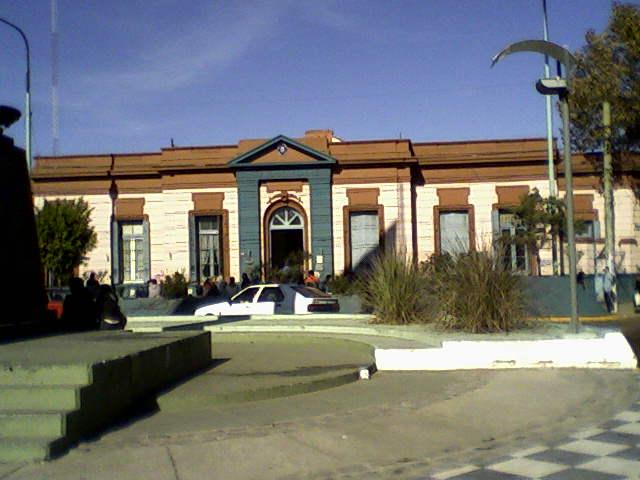 Domingo Faustino Sarmiento school, the first school founded around 1860.